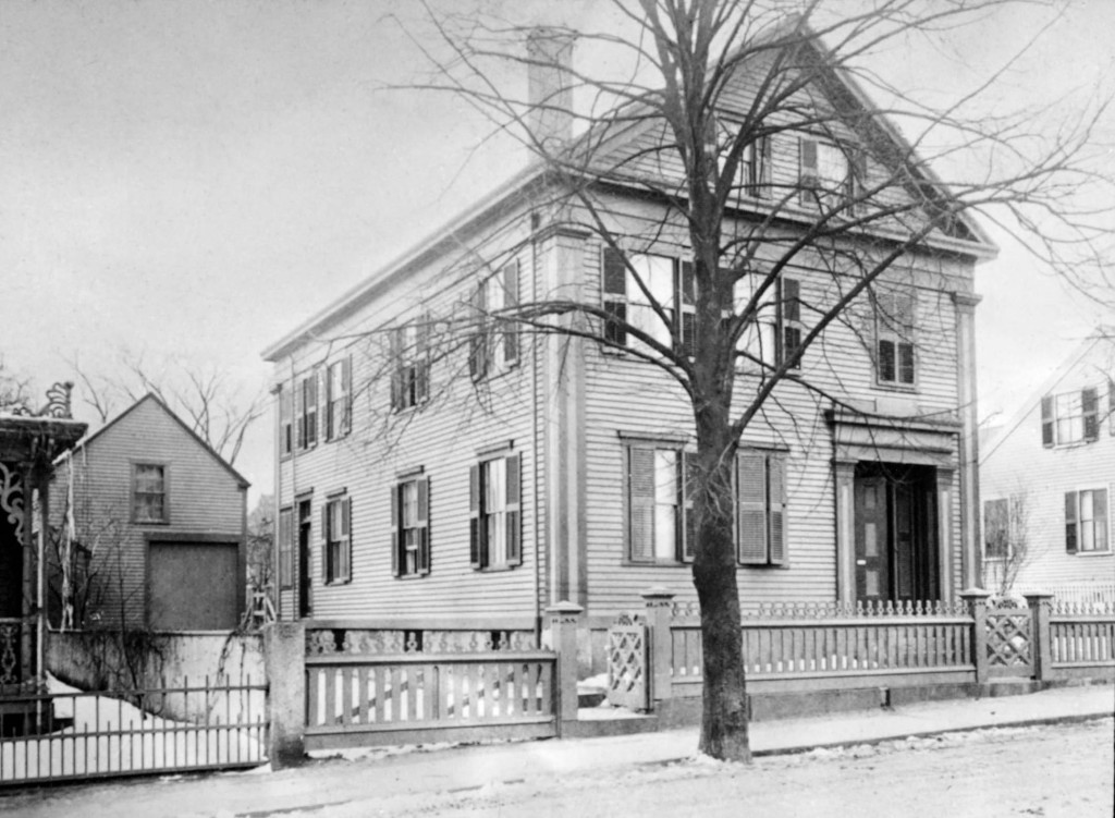 92 Second St, Fall River, MA, the home of Lizzie Borden at the time of the murders as it appeared in 1892.